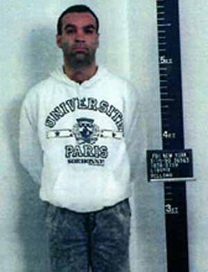 Liborio "Barney" Bellomo became street boss when Gigante was imprisoned; On December 1, 2008, Bellomo was released from prison [1] after serving 12 years. Bellomo is now believed to be serving as street boss for the Genovese family. His exact role in the family is yet to be revealed. (Photo courtesy of the Federal Bureau of Investigation)